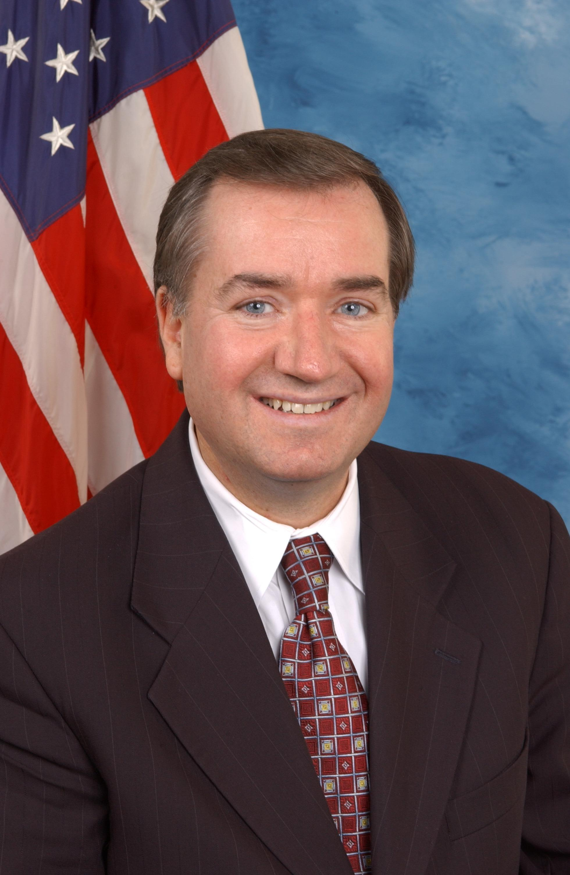 Ed Royce, U.S. Congressman (R-California, 1993-present).